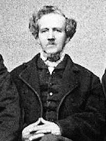 Photo of Phineas Howe Young, a prominent early convert in the Latter Day Saint movement and was later a Mormon pioneer and an older brother of Brigham Young